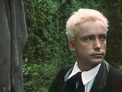 Narcissus